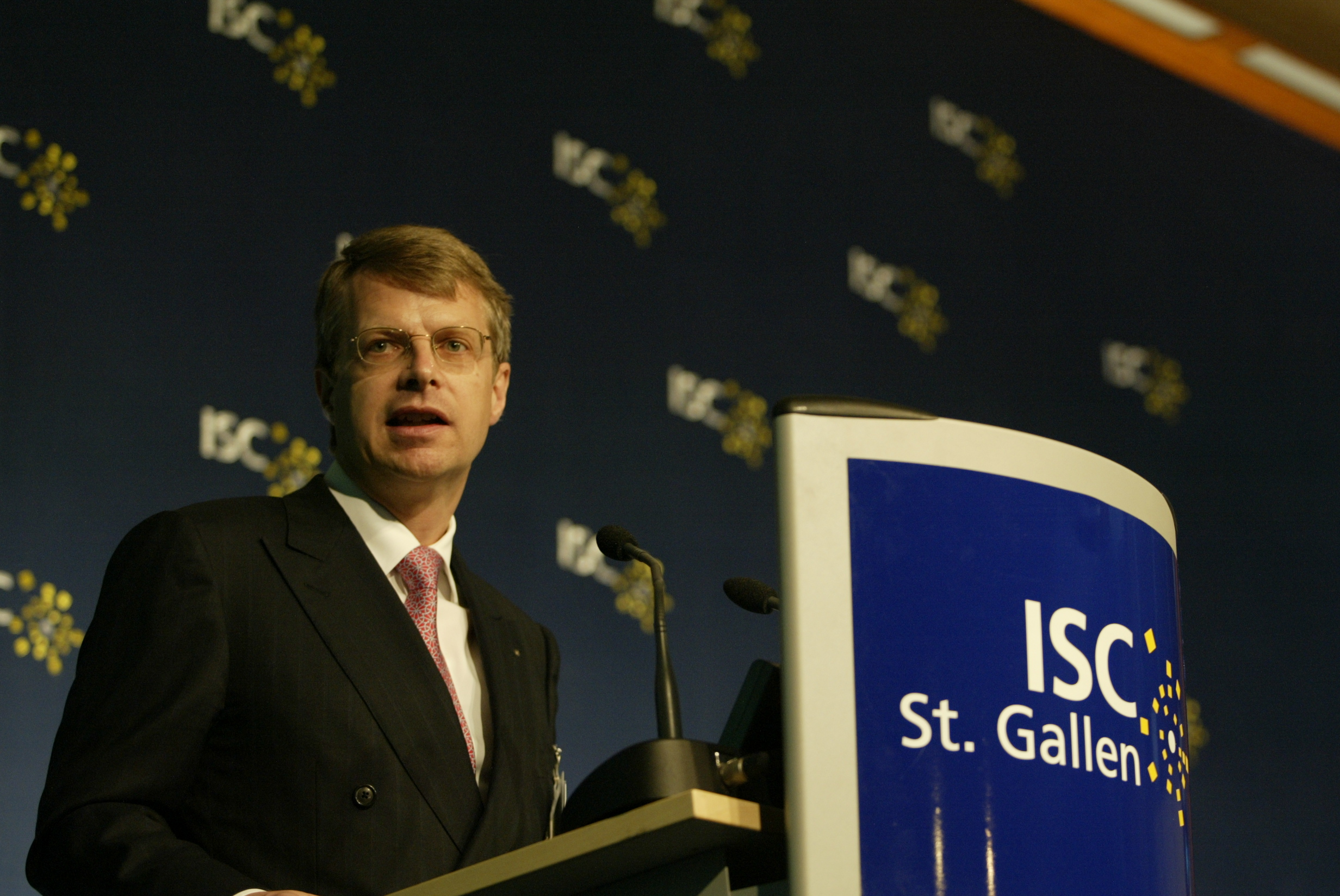 Peter Wuffli in May 2005 at the 35. St. Gallen Symposium at the University of St. Gallen